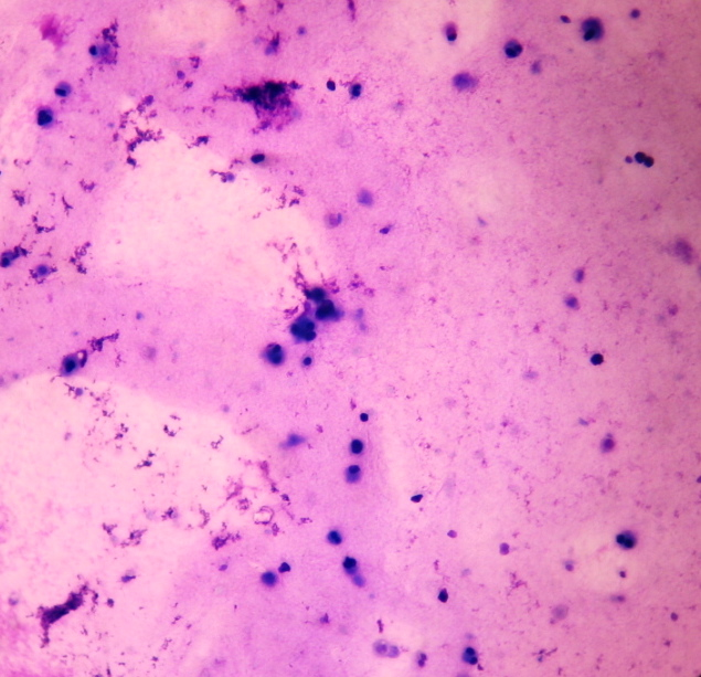 Azoospermia and multiple white blood cells in a semen sample.